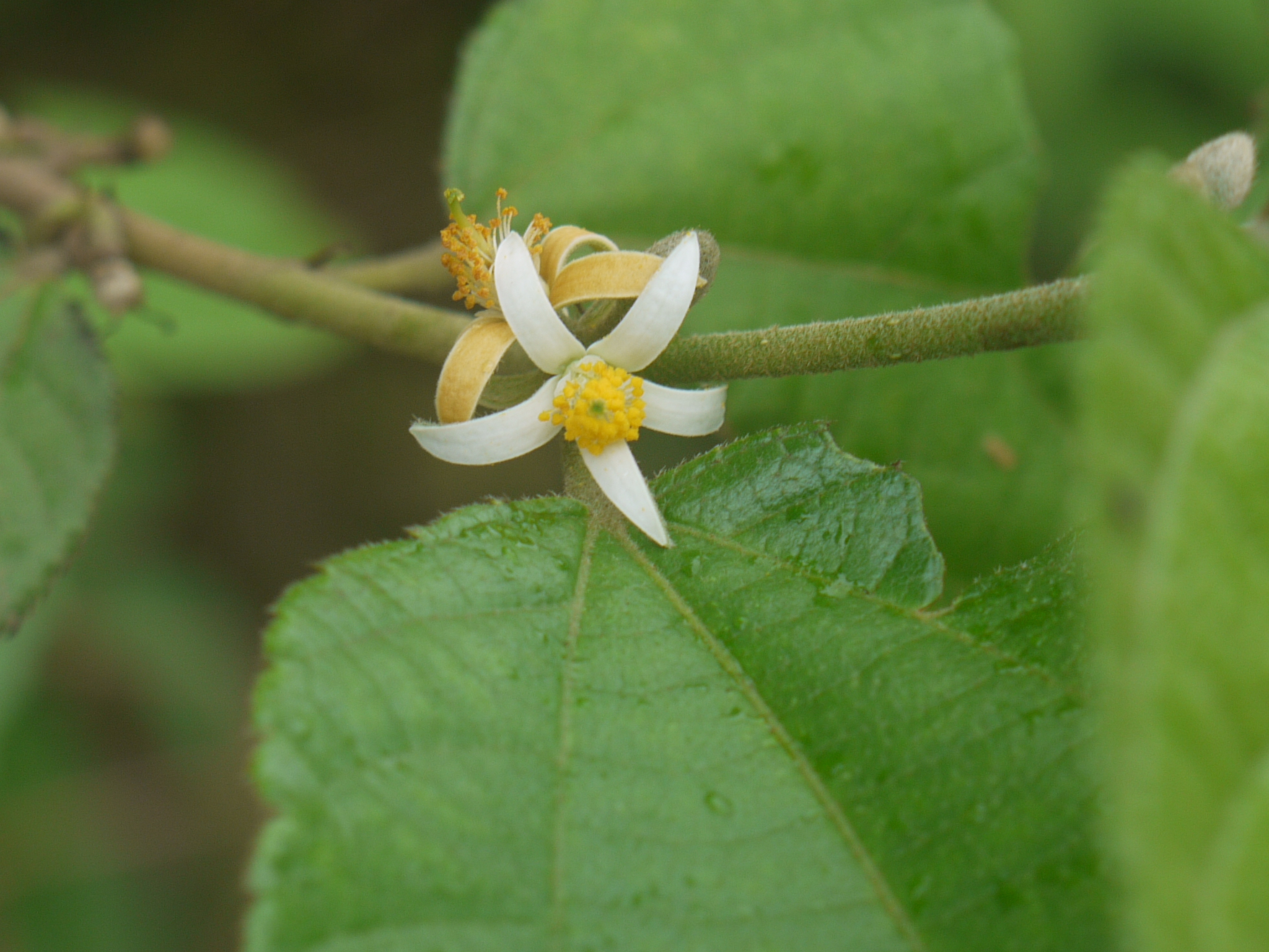 Tiliaceae (phalsa family) » Grewia abutilifolia GREW-ee-uh -- named for Nehemiah Grew (1641-1712), an English physician and author a-bew-tih-lee-FOH-lee-uh -- having leaves like Abutilon (the Arabic word for a mallow-like plant) commonly known as: mallow-leaved crossberry • Kannada: ಜಾನಿ ಗಿಡ jani gida, *ಕರಡಿಕಲ್ಲಿ karadikalli* • Konkani: कौरी kowri • Khasi: soh eitblang • Marathi: किरमीठ kirmith • Oriya: ryna • Telugu: గువ్వతడ guvvatada, పెద్దతడ peddatada Native of: s China, Cambodia, India, Indonesia, Laos, Malaysia, Myanmar, Thailand, Vietnam References: Flowers of India • eFlora • FRLHT • Further Flowers of Sahyadri by Shrikant Ingalhalikar